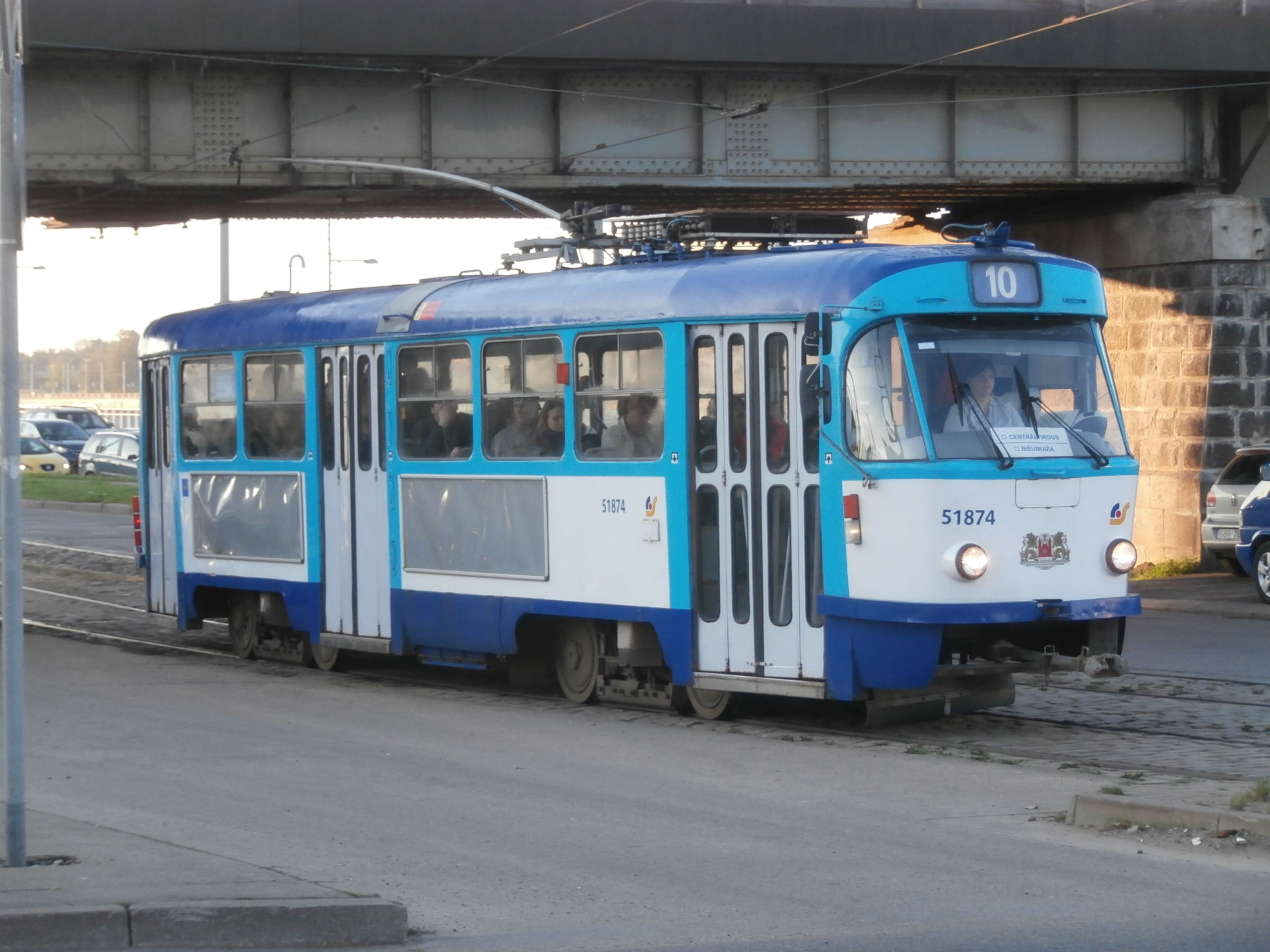 Tram 51874 passing under the Railroad Bridge in Riga 15 September 2014